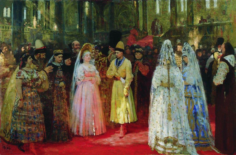 Choosing a Bride for the Grand Duke